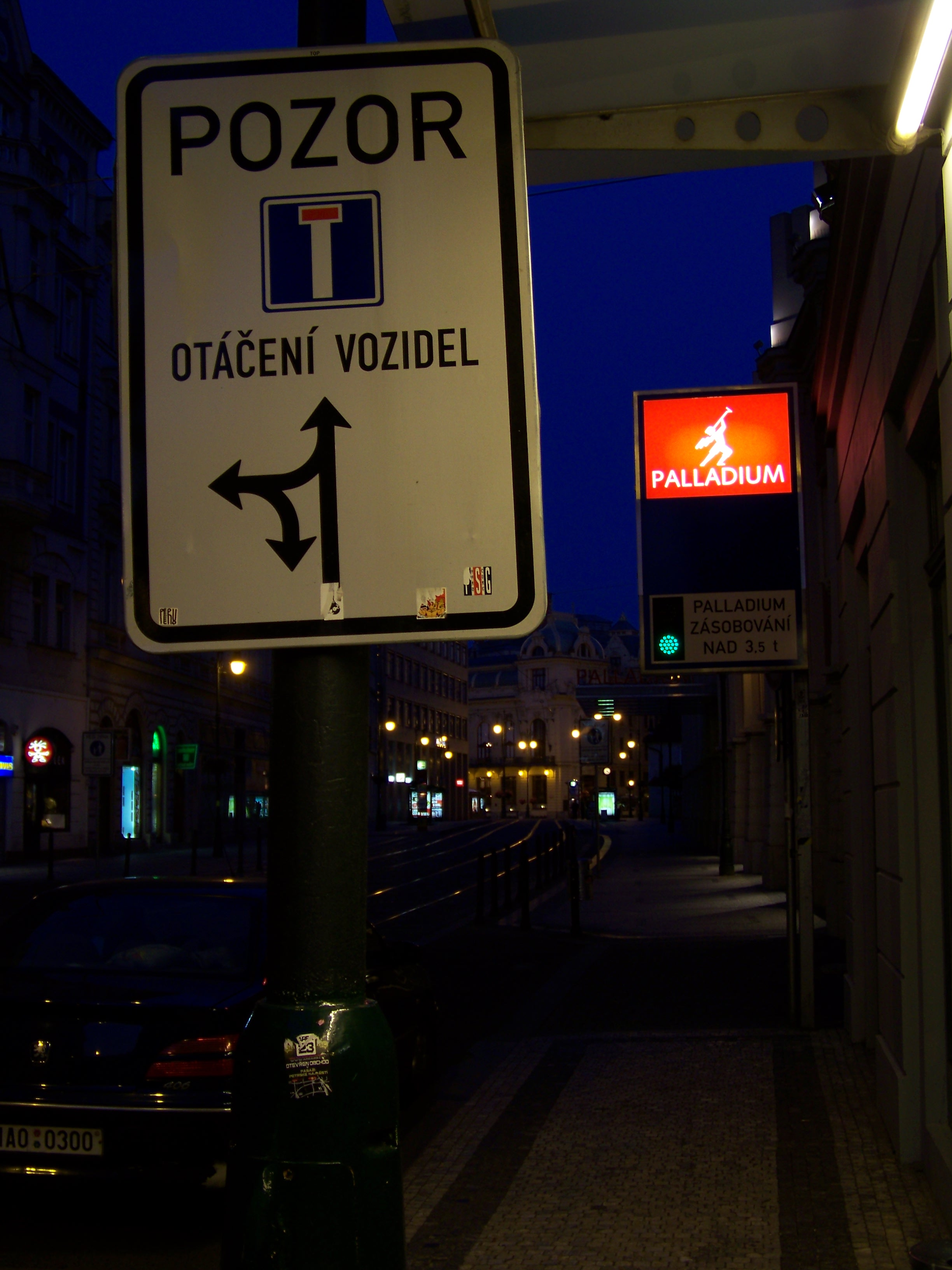 New Town, Prague, the Czech Republic. Na poříčí street.